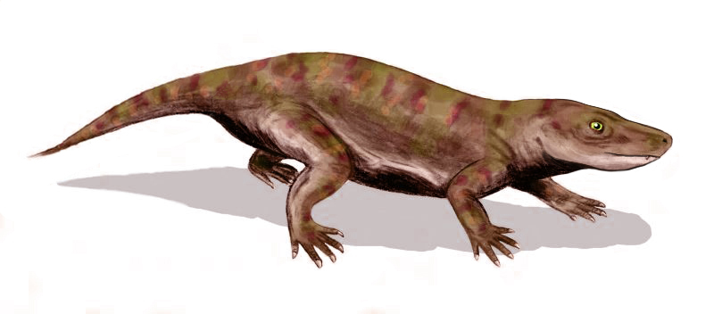 Bauria , a therocephalian therapsid from the early Middle Triassic of South Africa, pencil drawing